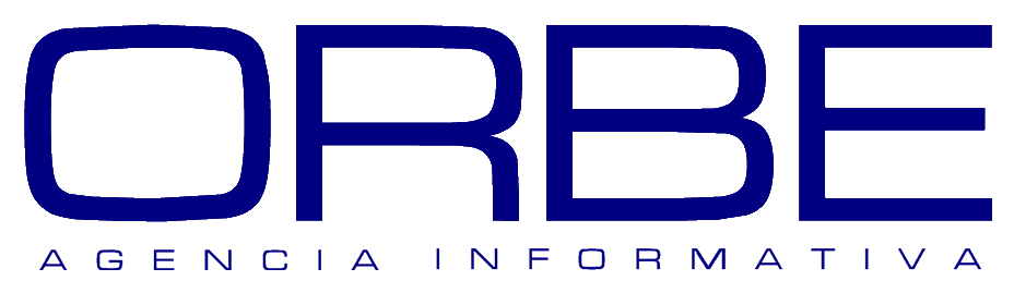 Agencia Orbe logo